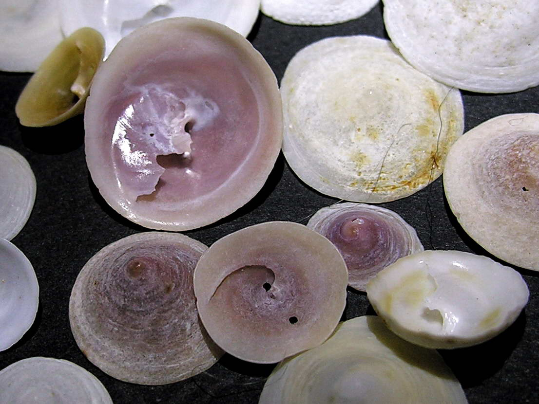 Calyptraea chinensis. Made in Ribeira - Galicia - Spain.